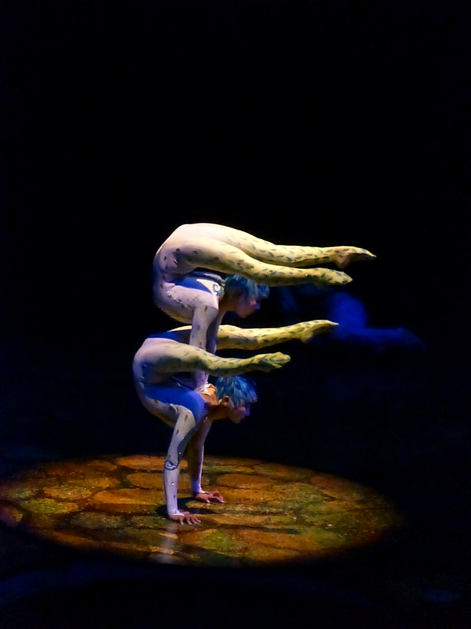 Two Contortion artists create graceful and lithe figures and movements with their extreme flexibility and balance. Cirque du Soleil 2012 Alegría, Istanbul, Turkey